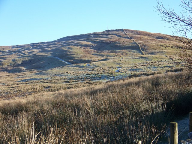 Slieve Croob Taken from Slieve Croob carpark